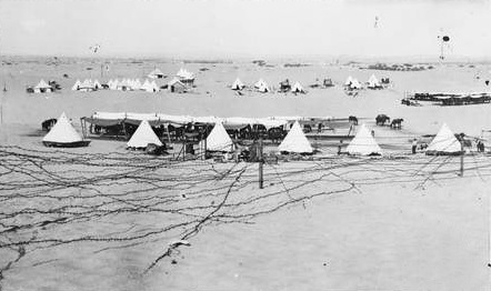 AWM caption : Egypt, Frontier, Hill 70 (Romani). View of the camp at Hill 70, between Deiran and Kantara, which was used in turn by the Australian Light Horse Brigade when holding the Romani front, prior to the battle in August 1916. The canvas shelters, behind the front row of tents and to the right, were erected to protect the horses from the burning sun. Note the barbed wire entanglement in the foreground.